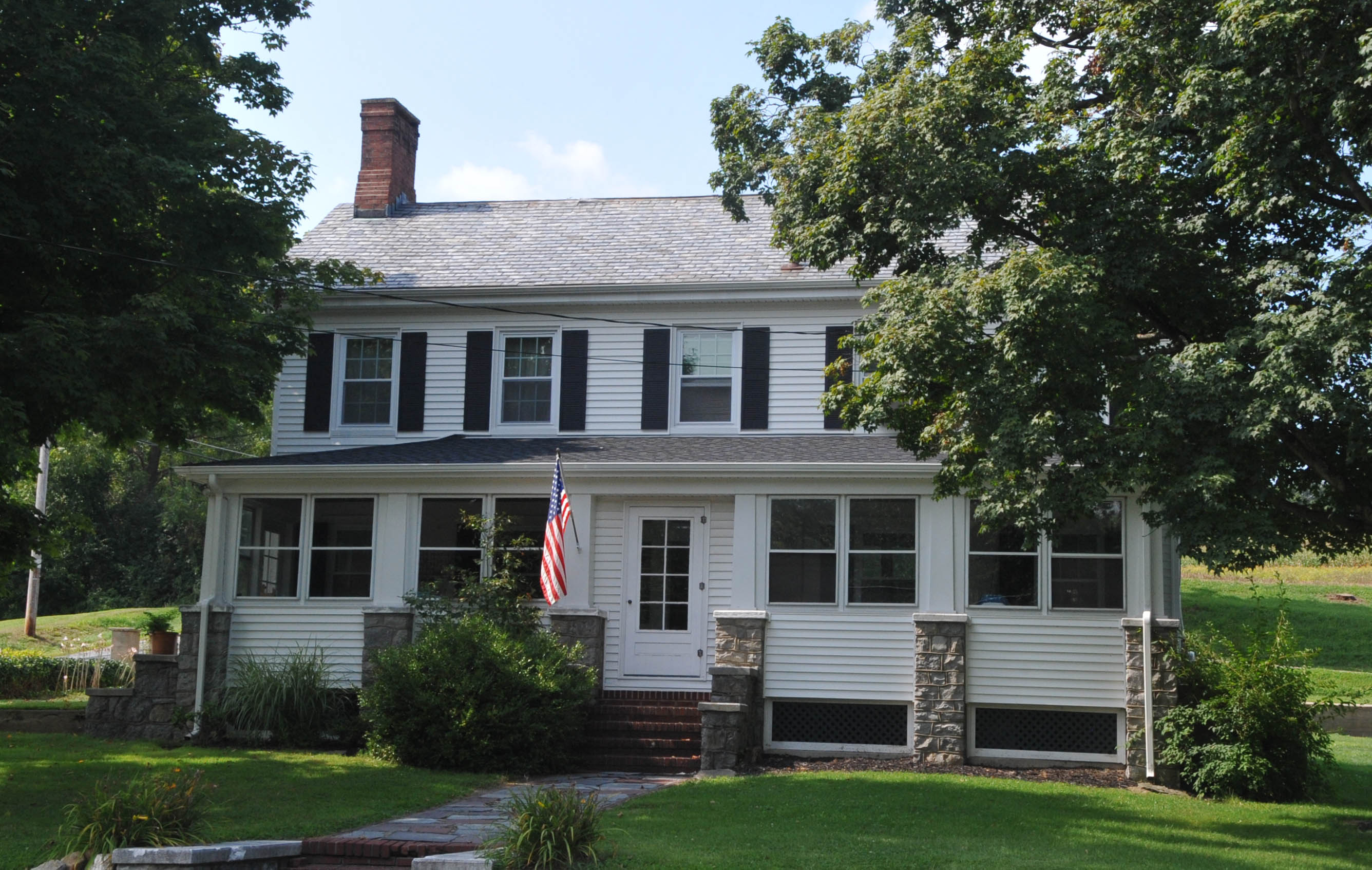 19TH CENTURY COLLECTION OF BUILDINGS LOCATED OVERLOOKING THE MUSCONETCONG RIVER. THE MAIN HOUSE IS LOCATED AT THE JUNCTION OF NJ 57 AND WATTERS ROAD